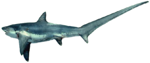 Common thresher shark (Alopias vulpinus).